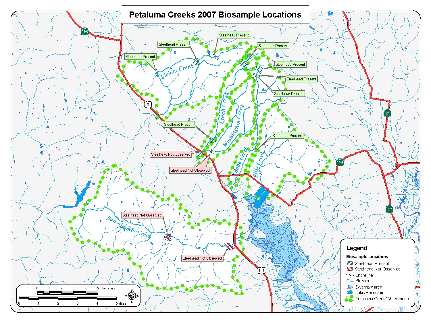 Map of Petaluma River Watershed with locations of steelhead trout in 2007 biosurvey.